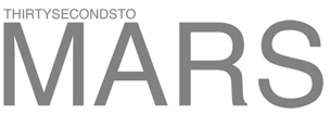 Thirty Seconds to Mars logo.